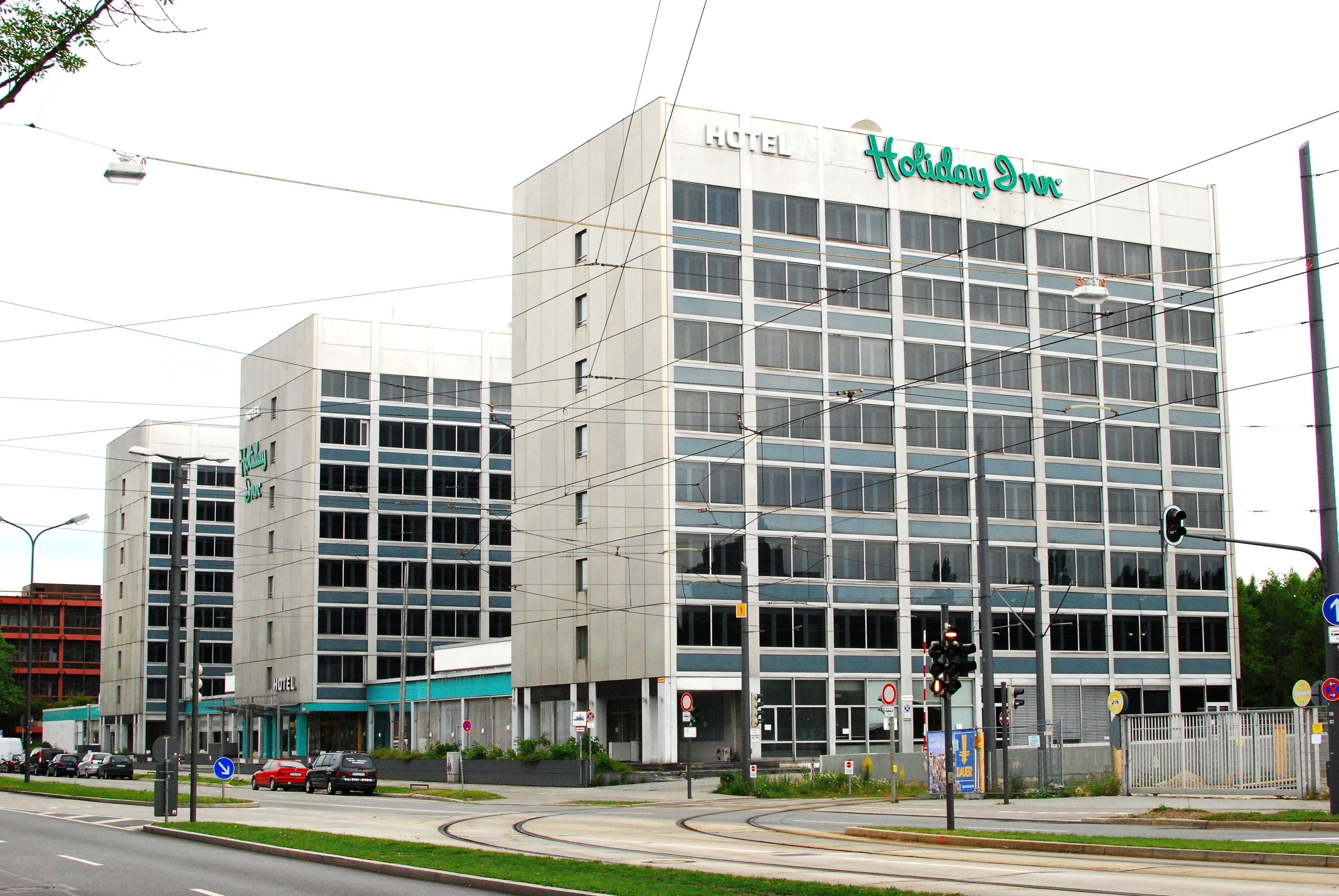 Former Holiday Inn in Munich, Leopoldstraße. Opened in Apr 1971, closed in Dec 2011, demolition expected in 2012.